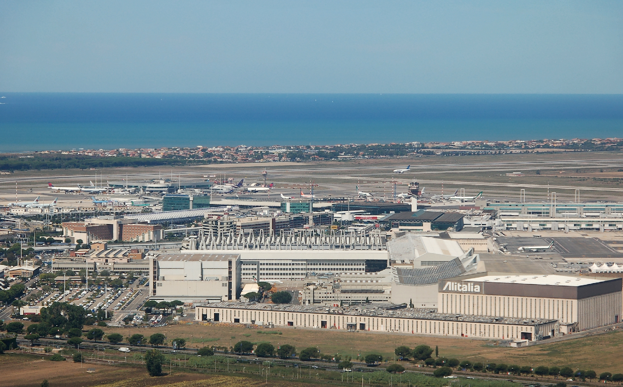 Fiumicino Airport 2011